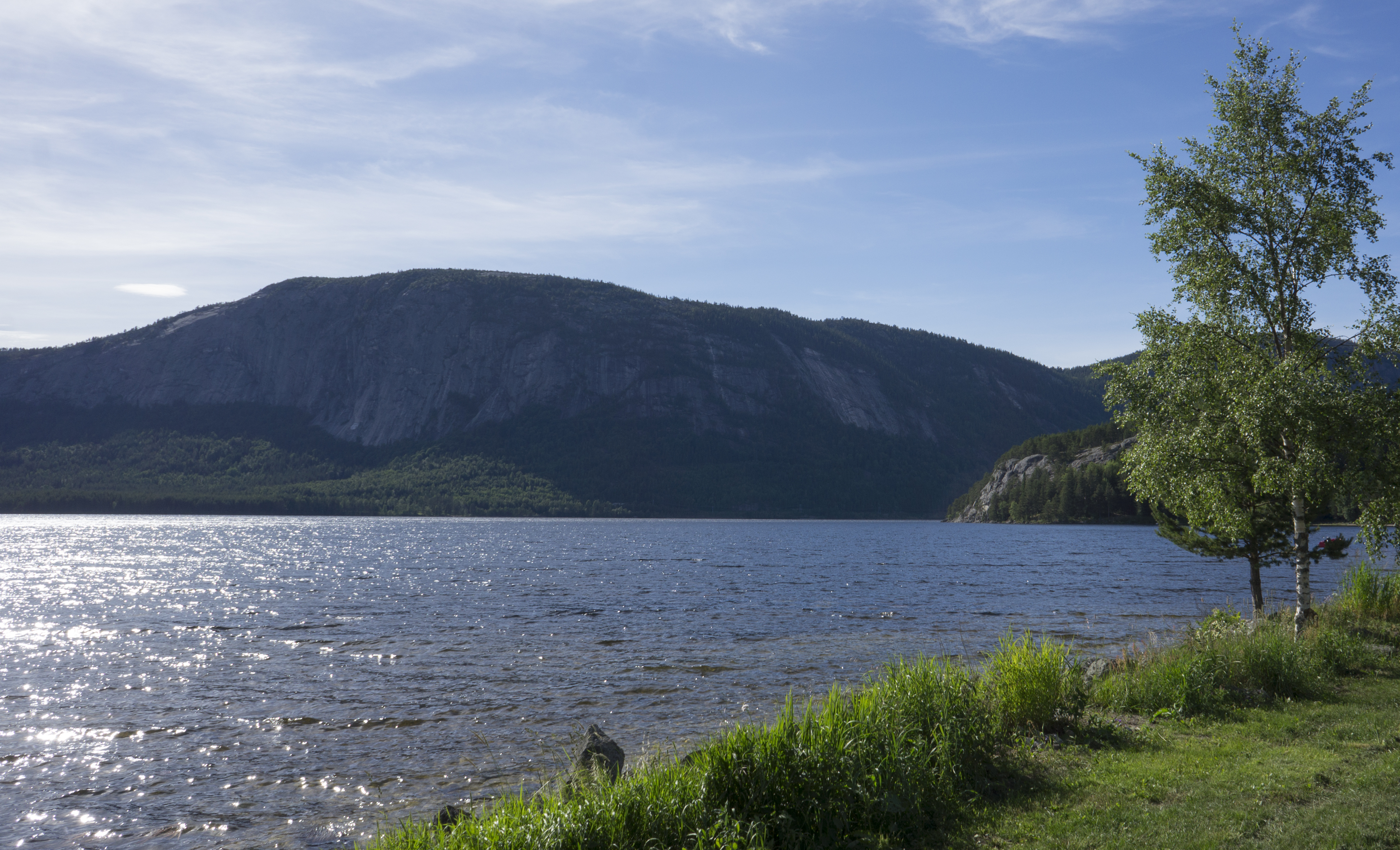 Fyresvatn lake seen from Fyresdal in Telemark, Norway.